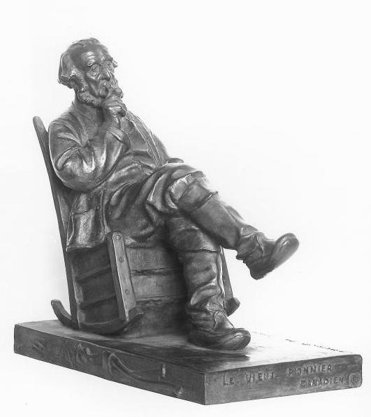 Photograph, Le vieux pionnier canadien, bronze by and copied for Marc-Aurèle de Foy Suzor-Côté, 1914, Wm. Notman & Son, Silver salts on glass - Gelatin dry plate process, 25 x 20 cm